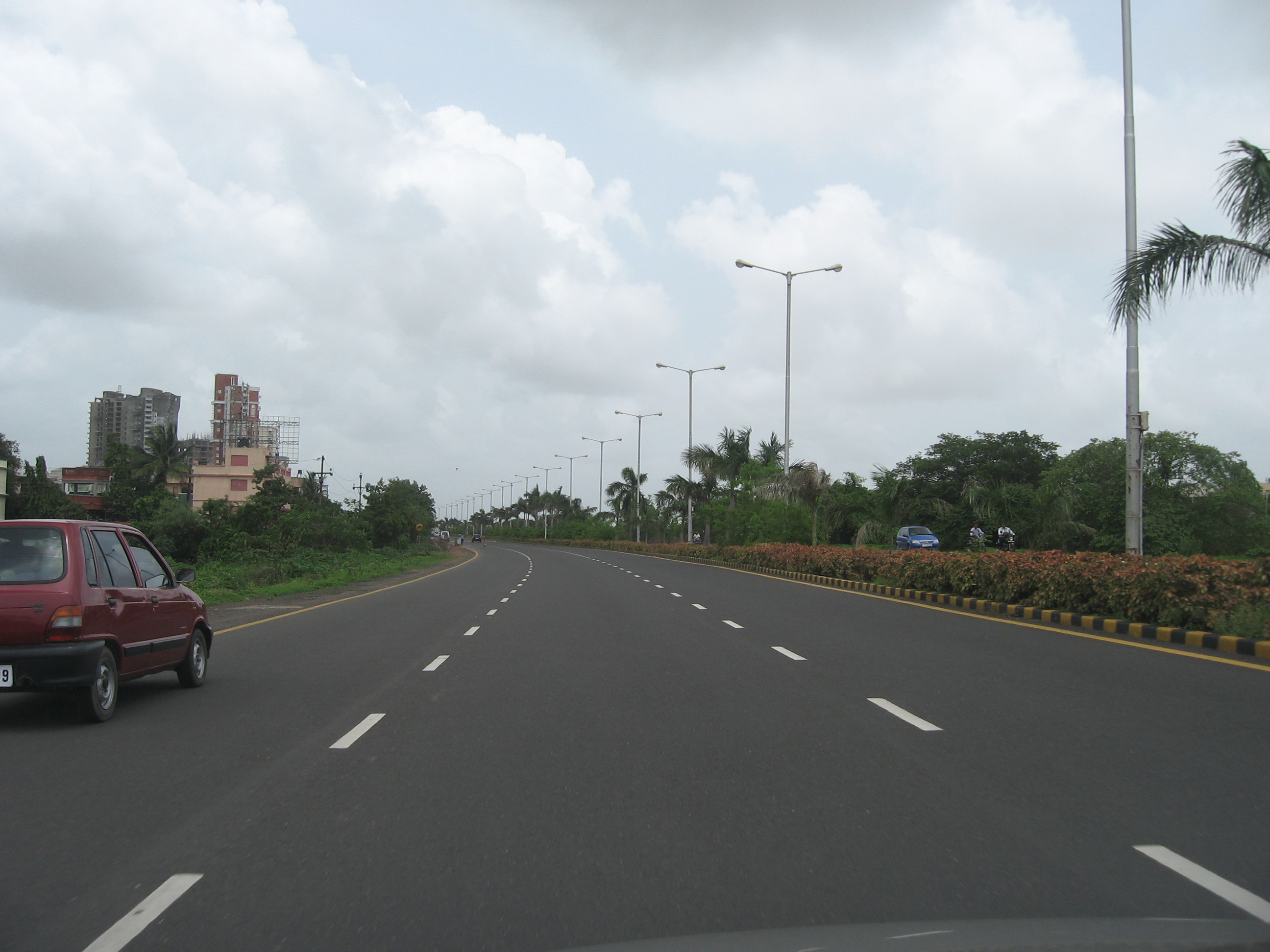 Palm Beach Road, in Navi Mumbai